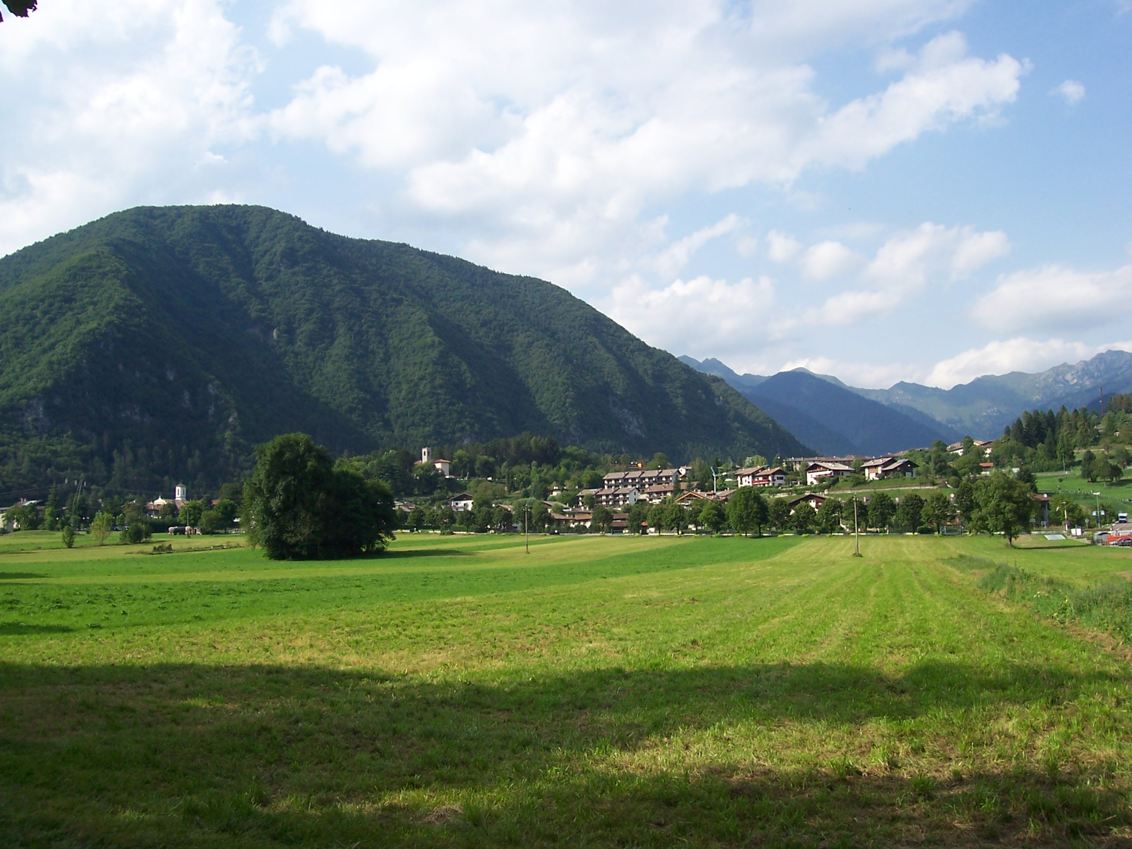 Municipality Bezzecca in Ledro Valley (Valle di Ledro), South-Eastern View